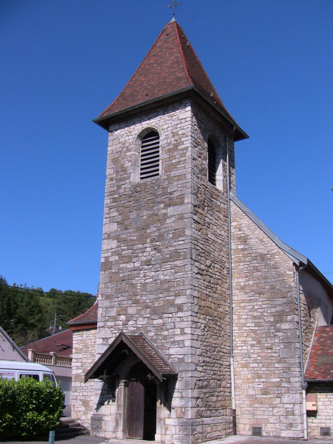 Church of Velotte, in Besançon (France)